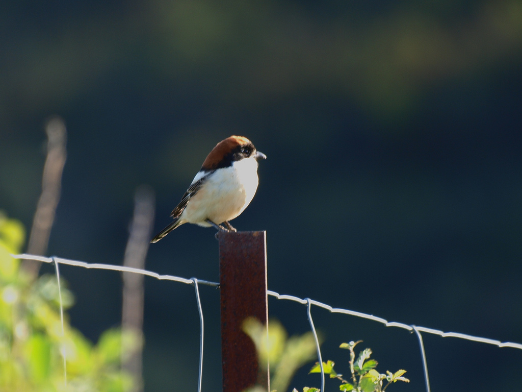 Woodchat shrike (Lanius senator)